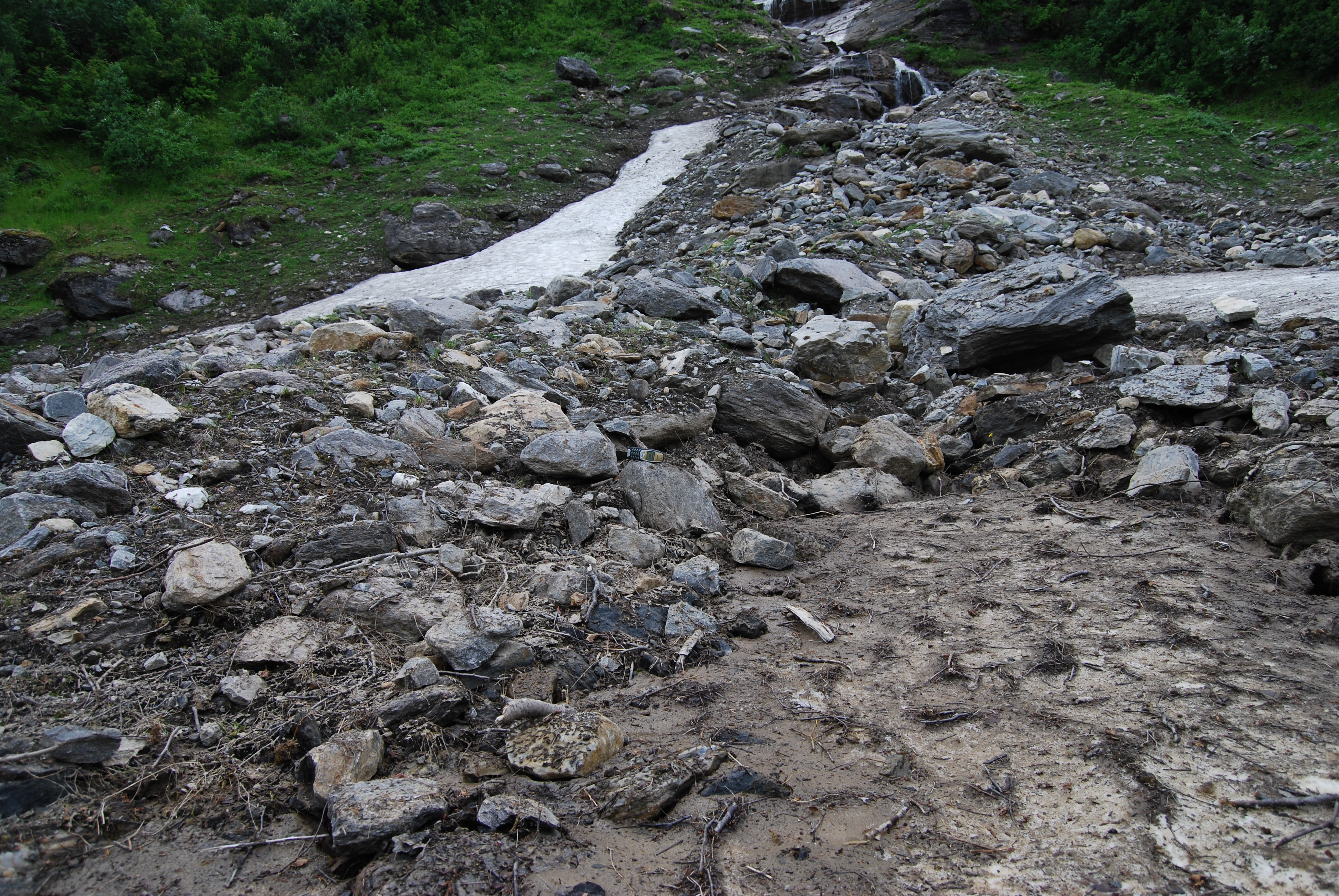 Sedimentary rock till after avalanche in Målselvfjorden, Målselv municipitaly, Norway